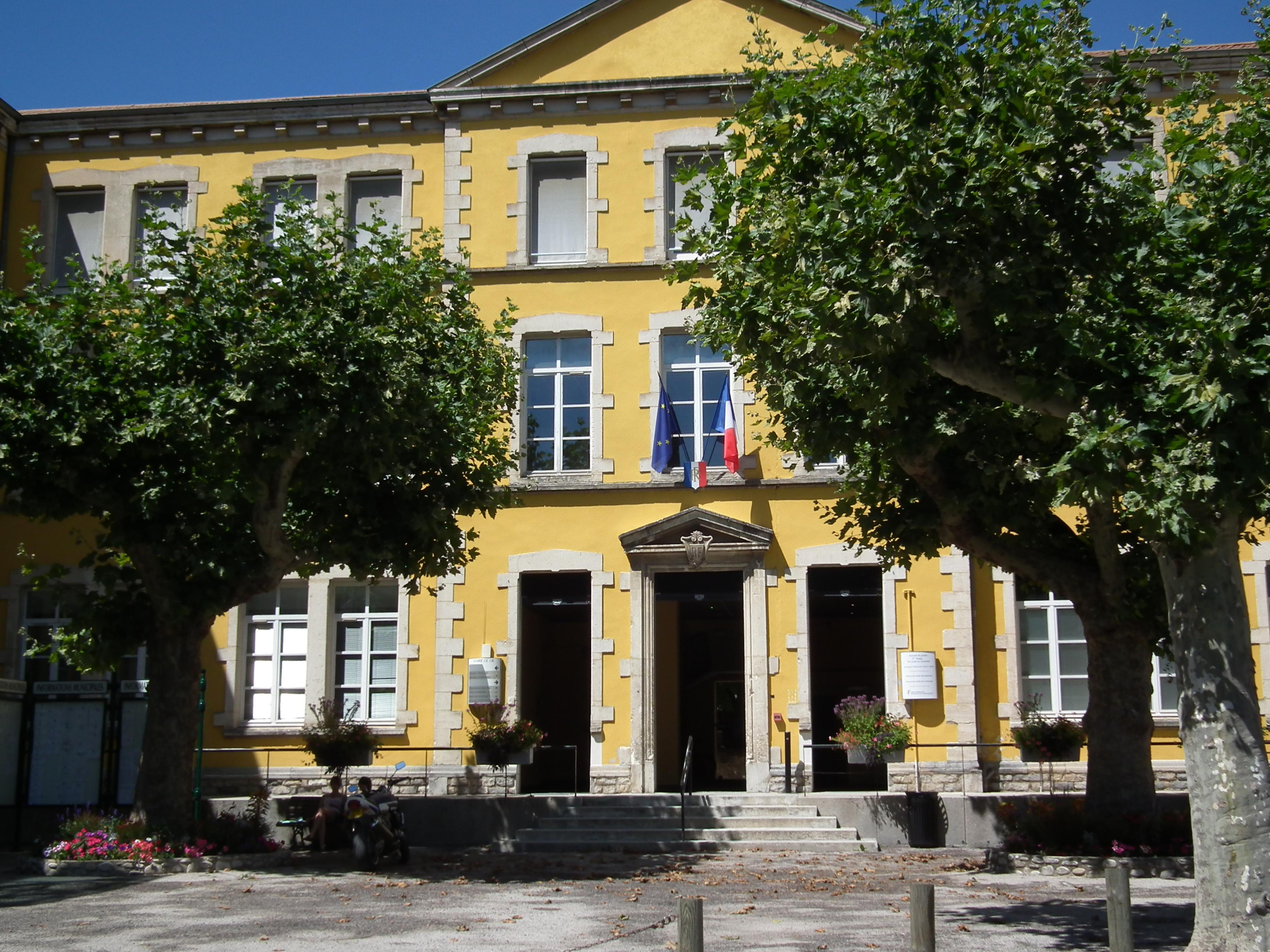 Town hall of Die - Drôme - France